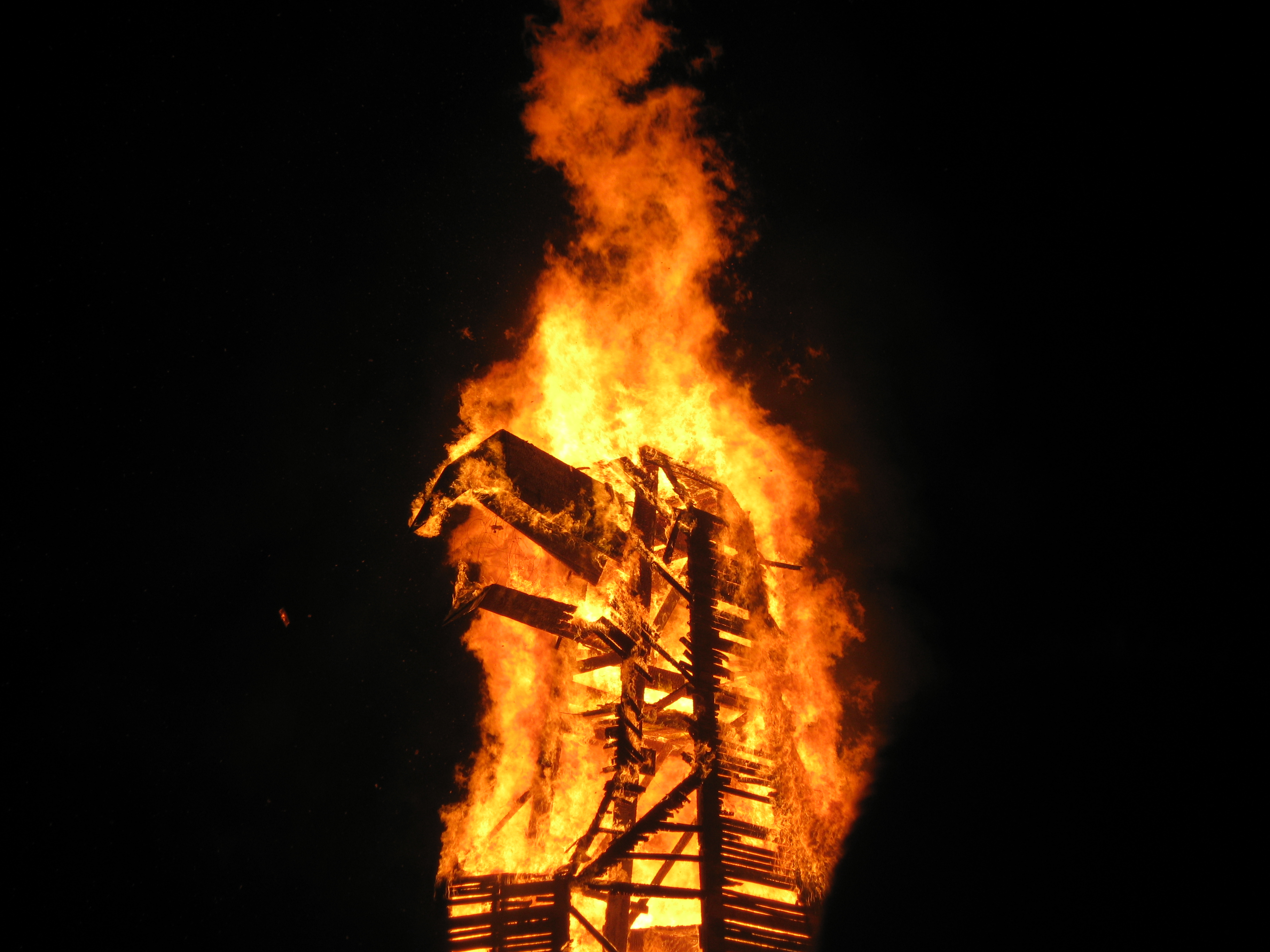 Every year, Phoenixville hosts and annual Burning of the Phoenix, to represent the towns namesake, and its economic and arts rebirth from the ashes of the burnt out steel industry it used to be home to.